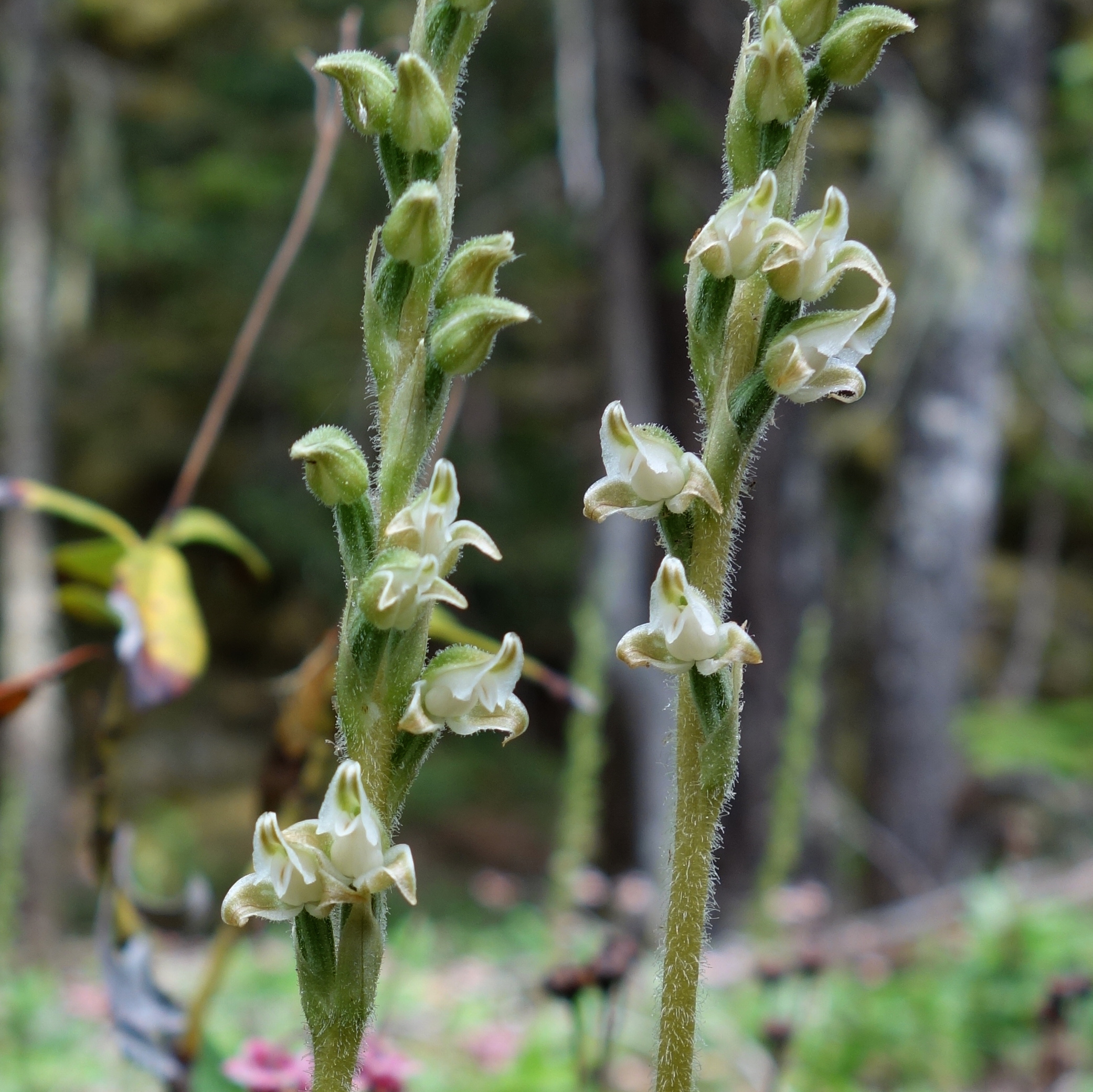 (Goodyera oblongifolia) Learn more about this plant at NPS Photo